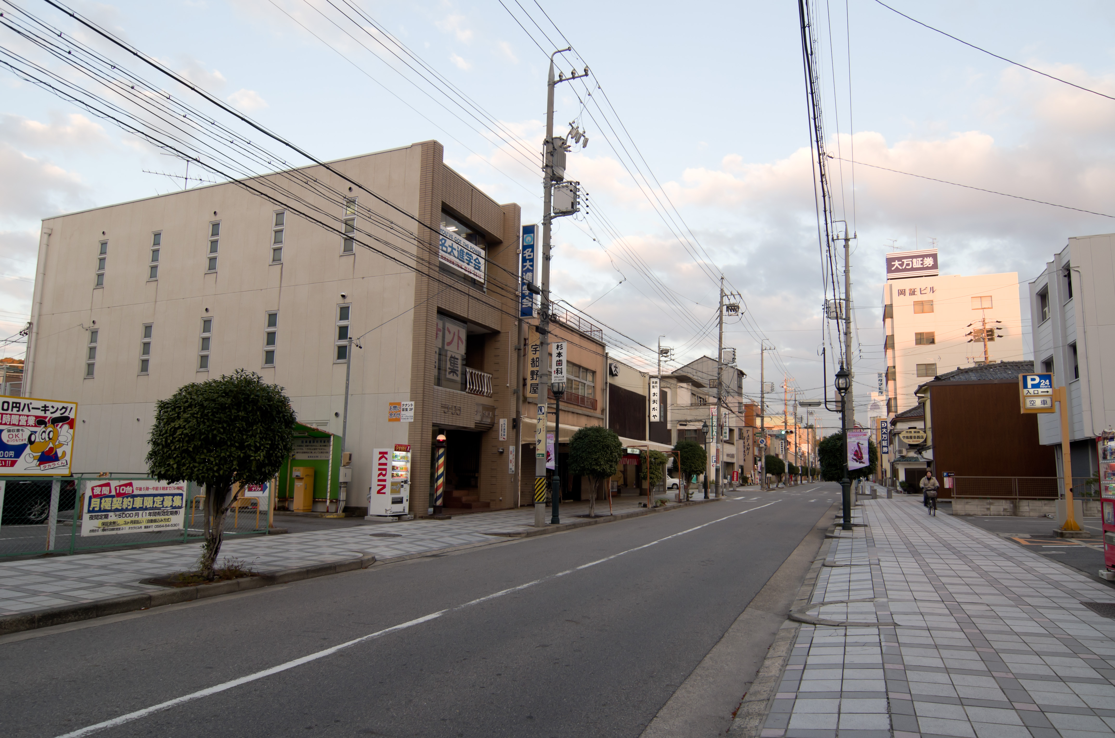 Renjaku-dori St. in Okazaki, Aichi, Japan